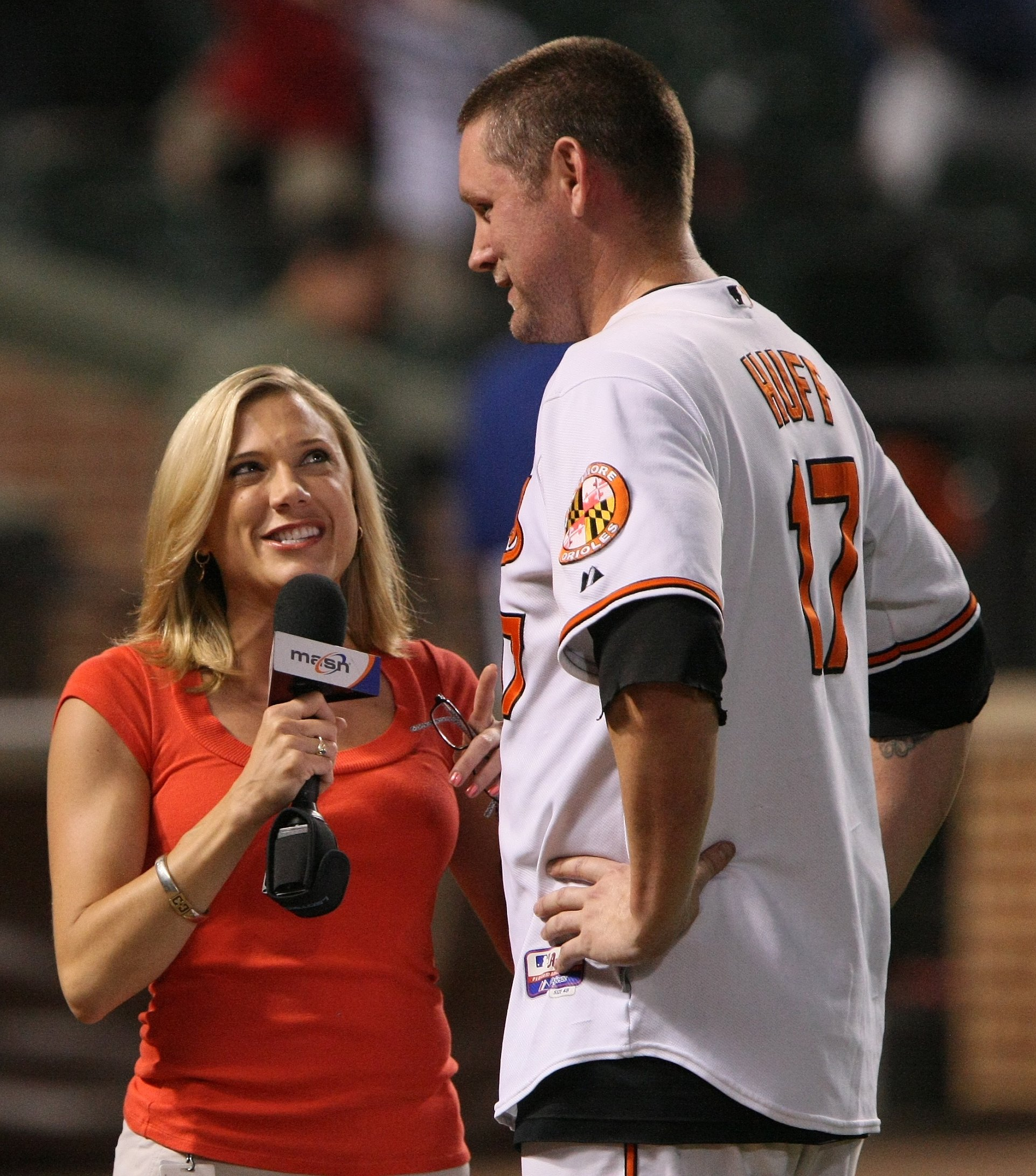 Baltimore Orioles' Aubrey Huff is interviewed by MASN reporter Amber Theoharis following his single that drove in the winning run against the New York Mets in the ninth inning of a baseball game Thursday, June 18, 2009, in Baltimore. The Orioles won 5-4.